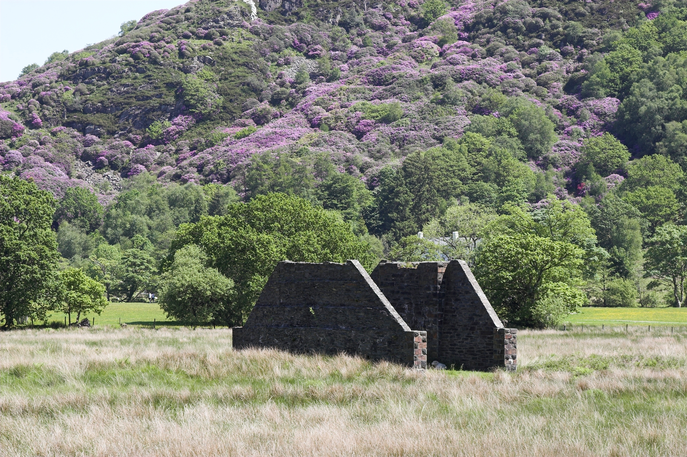 Bridge abutments of the never to be finished Portmadoc, Beddgelert and South Snowdon Railway near Beddgelert cemetary.